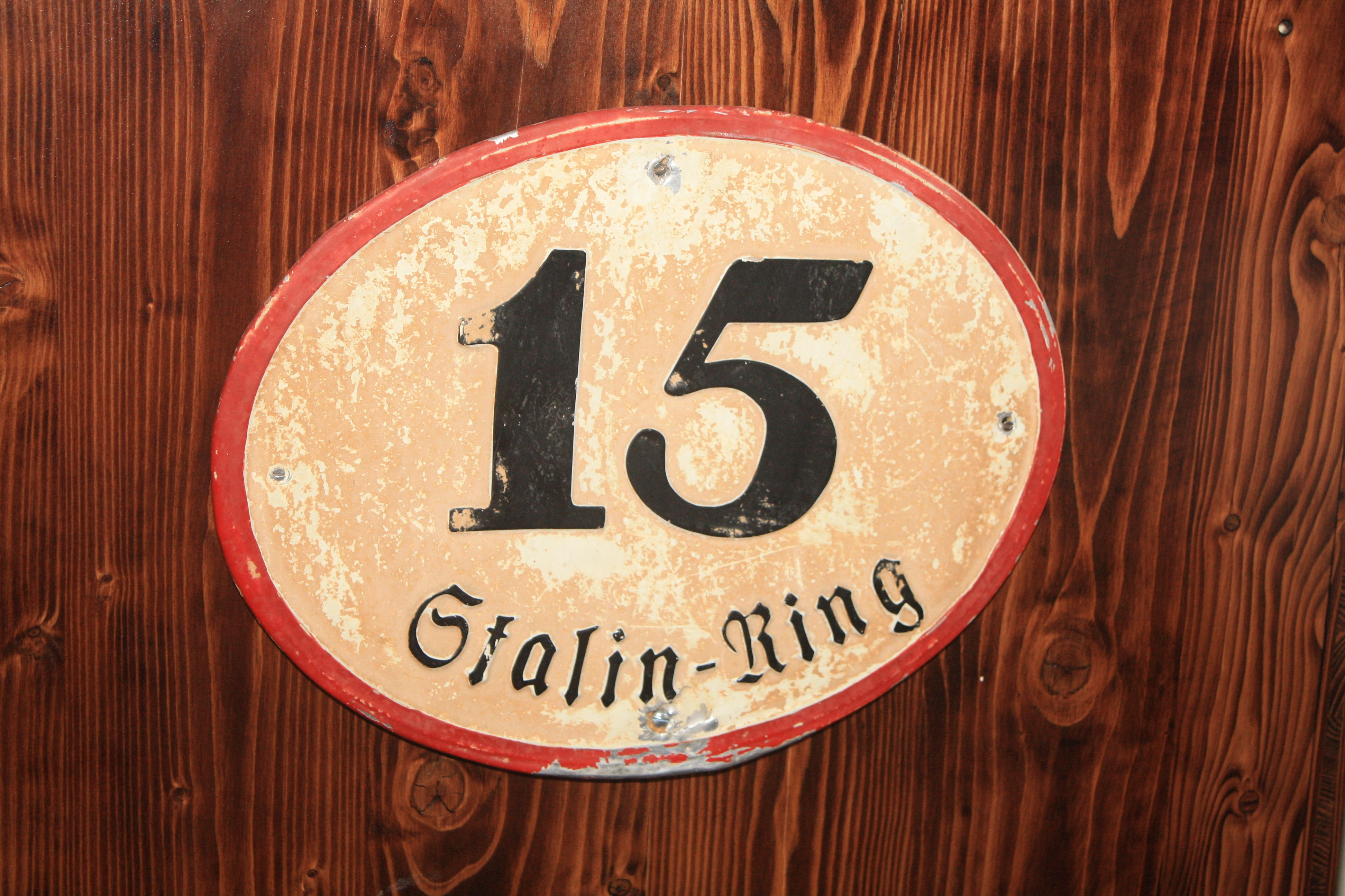 House number from Baden bei Wien, Lower Austria in the time of occupation (1945-1955)